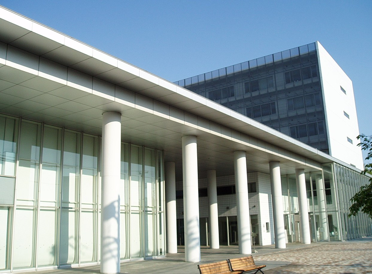 Jujodai Campus of Tokyo Seitoku University & College, located in Kita-ku, Tokyo, Japan.